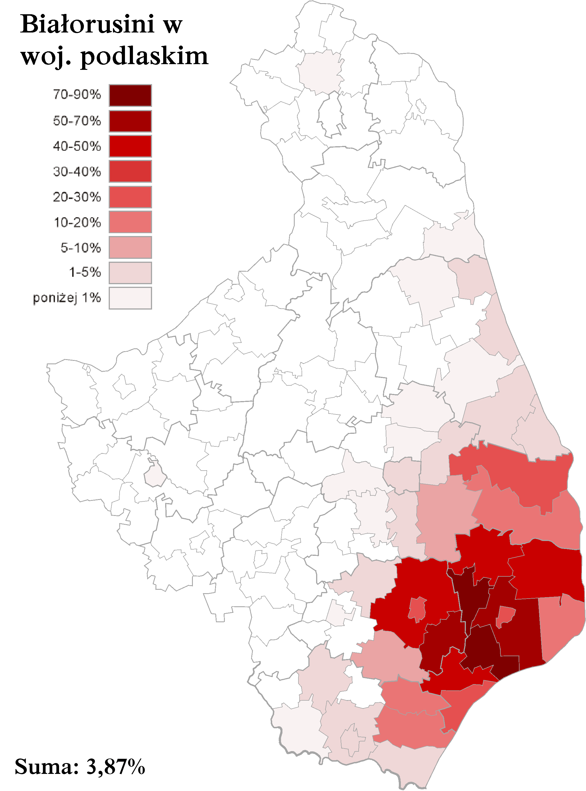 The percentage of Belarussians living in the Podlaskie Voivodeship (data from 2002).